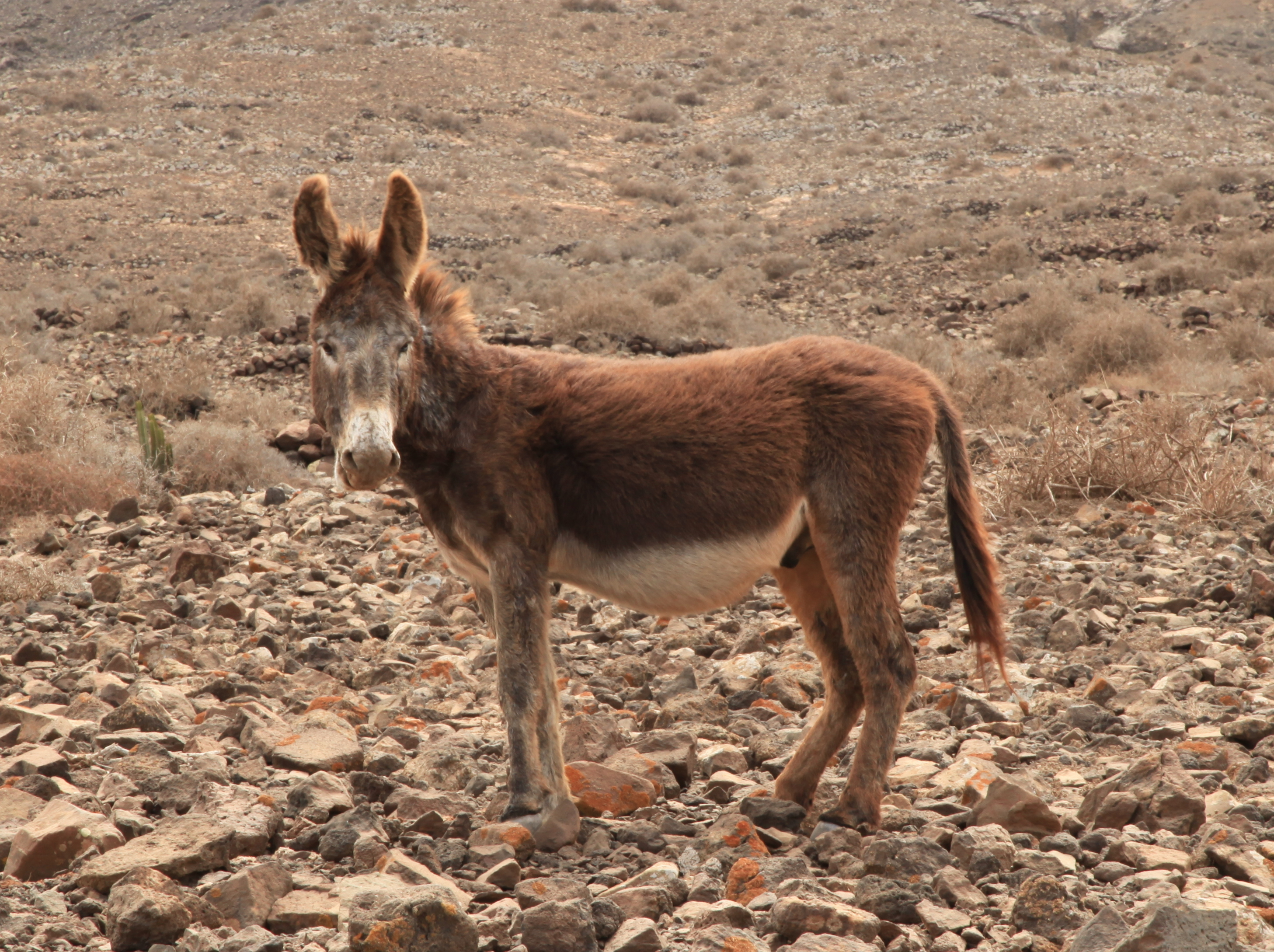 Road to Cofete in Pájara, Fuerteventura, Canary Islands